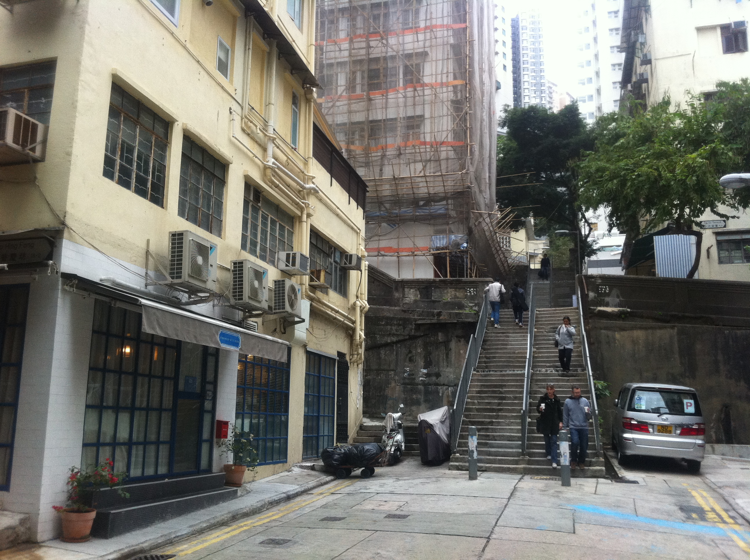 View of Pound Lane from its intersection with Po Hing Fong